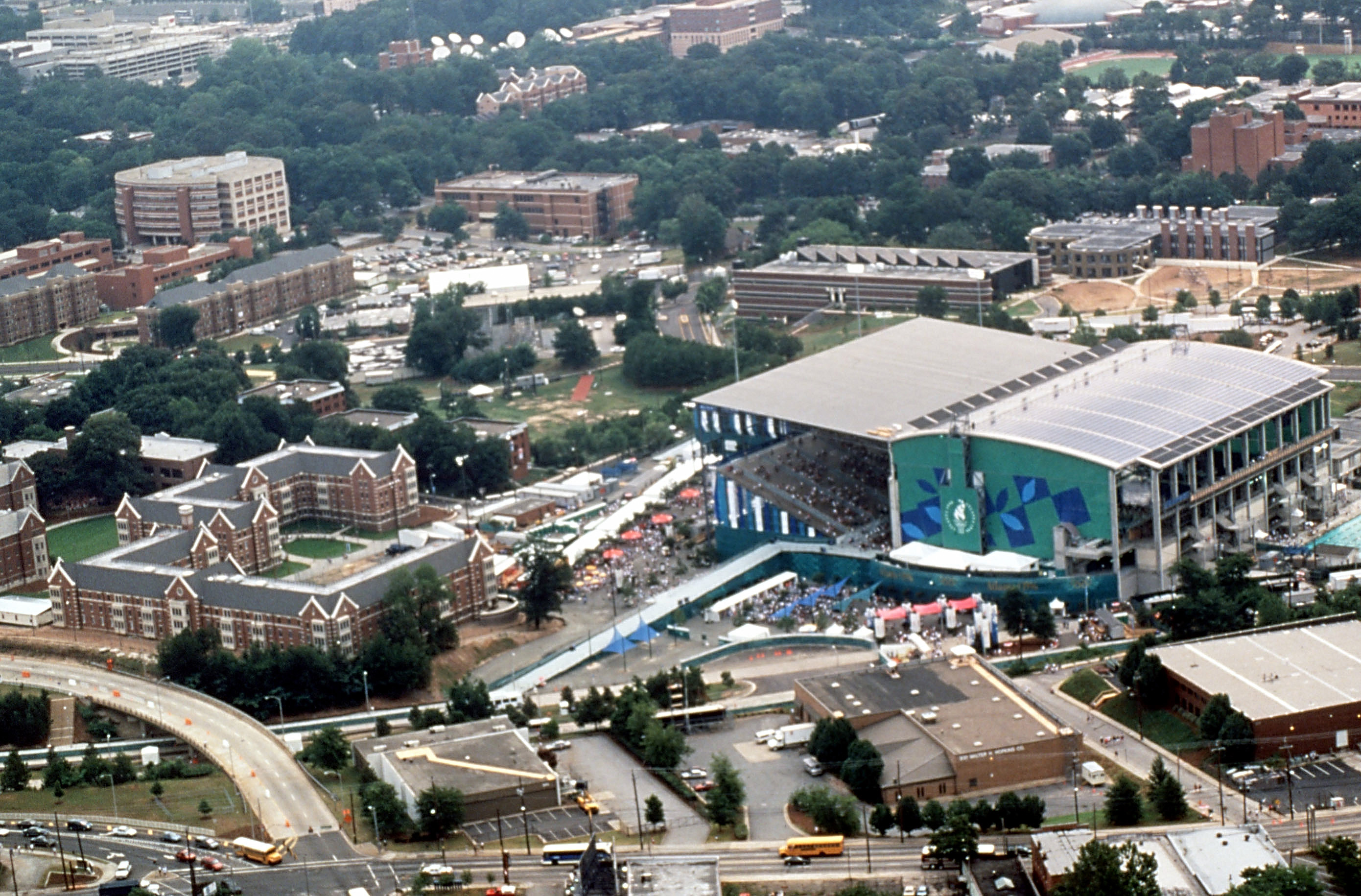 This is an aerial shot showing one of the several sports complexes being used during the 1996 Summer Olympic Games at Atlanta, Georgia.